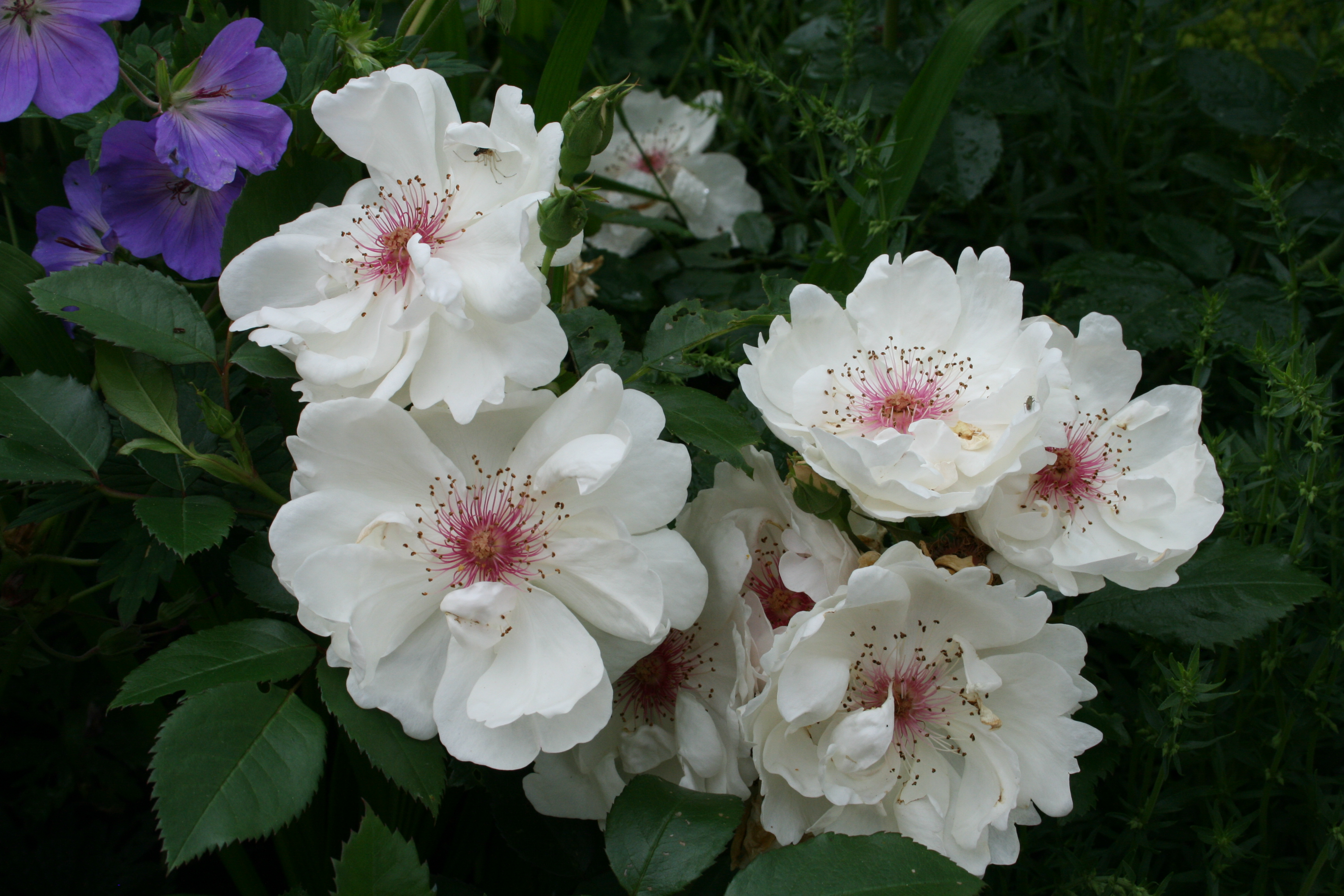 Rosa 'Harwanna' (JAQUELINE DU PRÉ)